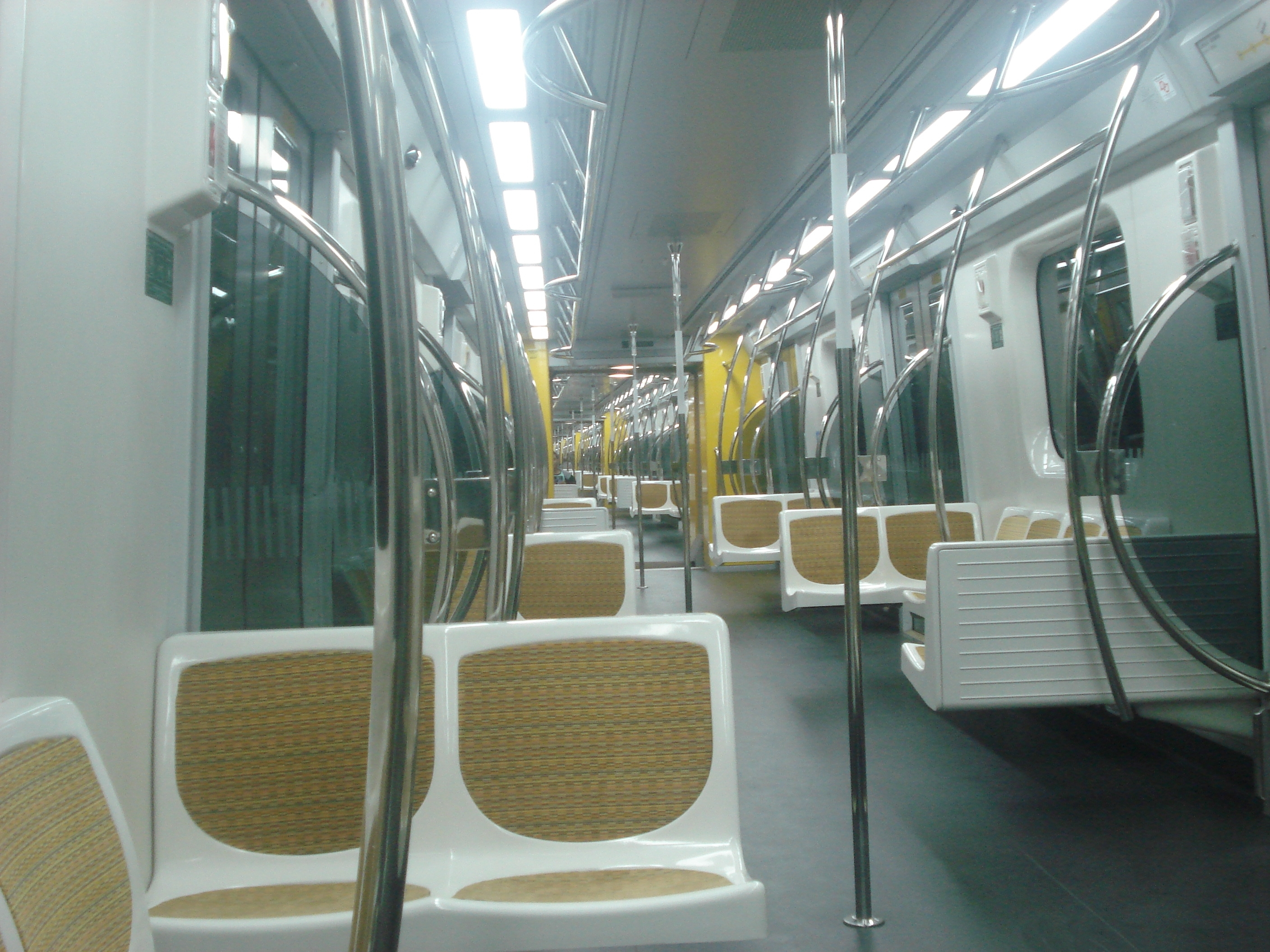 Hyundai Rotem train of Line 4 - Yellow of São Paulo Metro. Internal View.